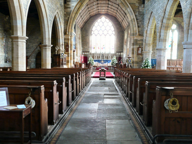 St George's parish church, Brailes, Warwickshire: interior of the nave, looking east to the chancel